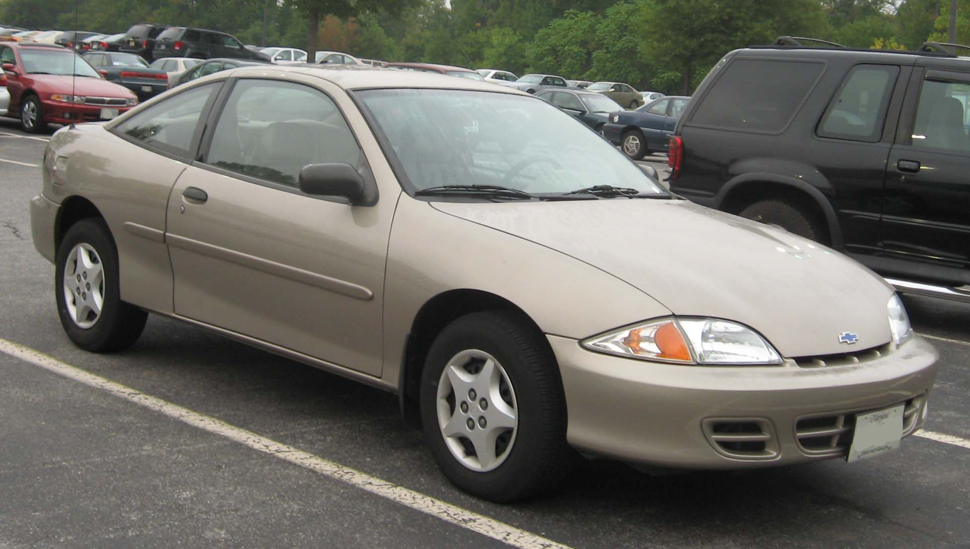 2000-2002 Chevrolet Cavalier photographed in College Park, Maryland, USA.